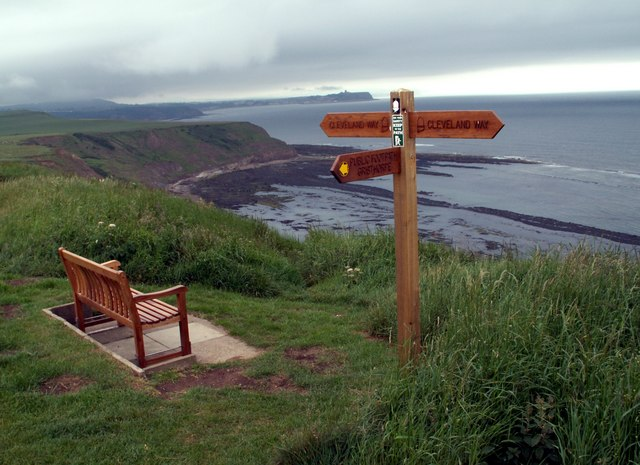 Gristhorpe Cliff Tops on the Cleveland Way, by Gristhorpe, North Yorkshire